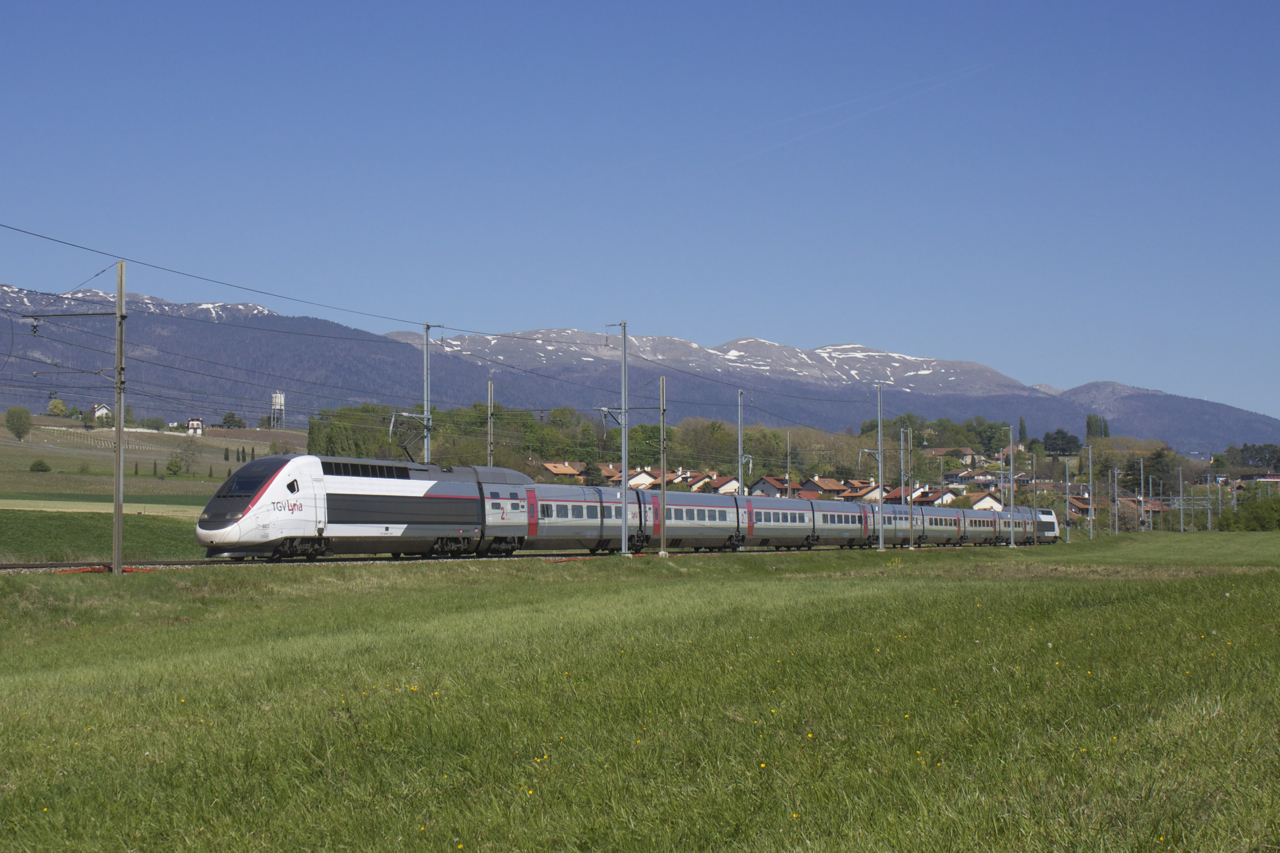 SNCF TGV POS 4403 at Satigny while running as TGV 9770 from Genève to Paris Gare-de-Lyon.